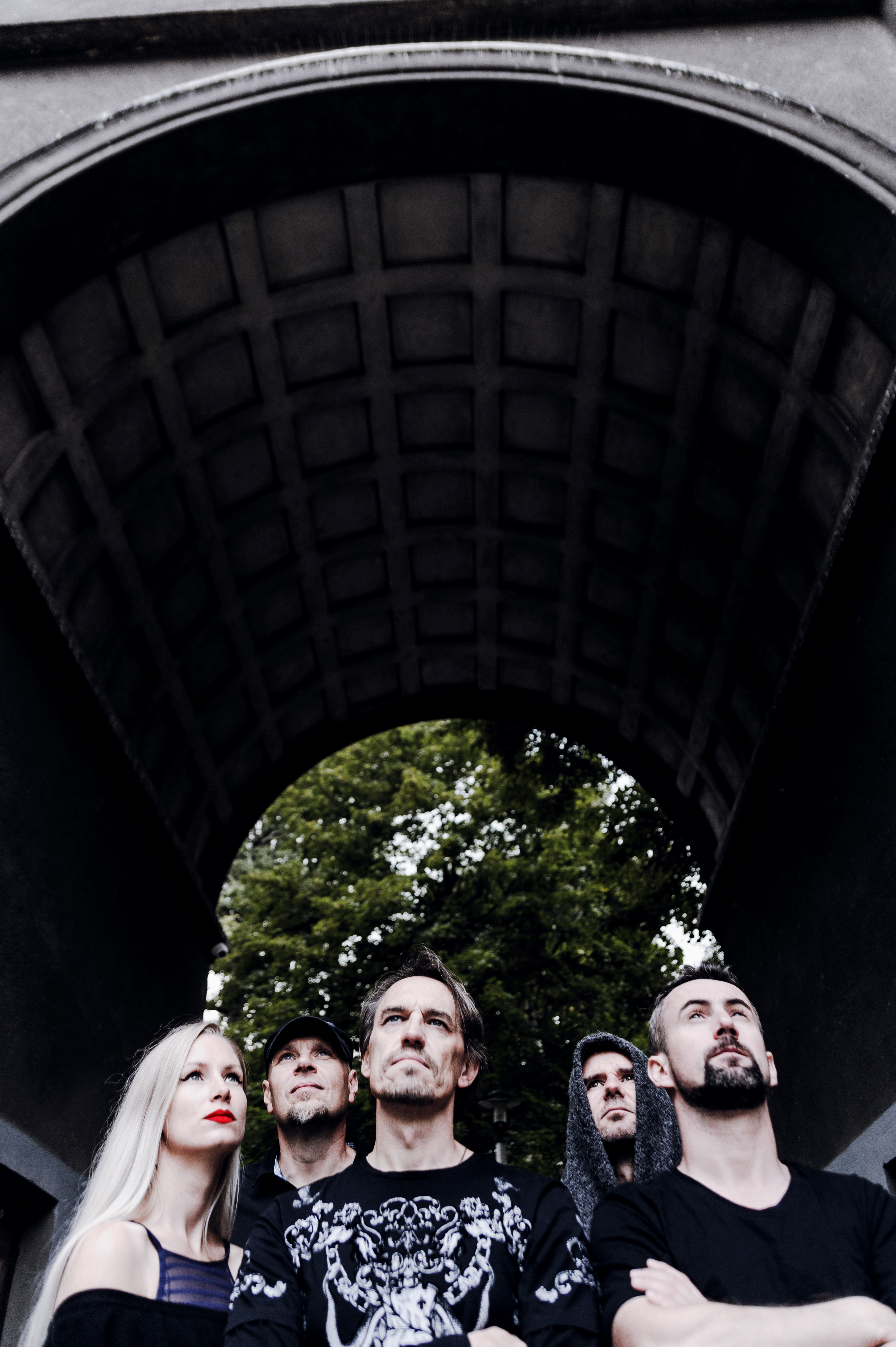 author: Liudmyla Radyk